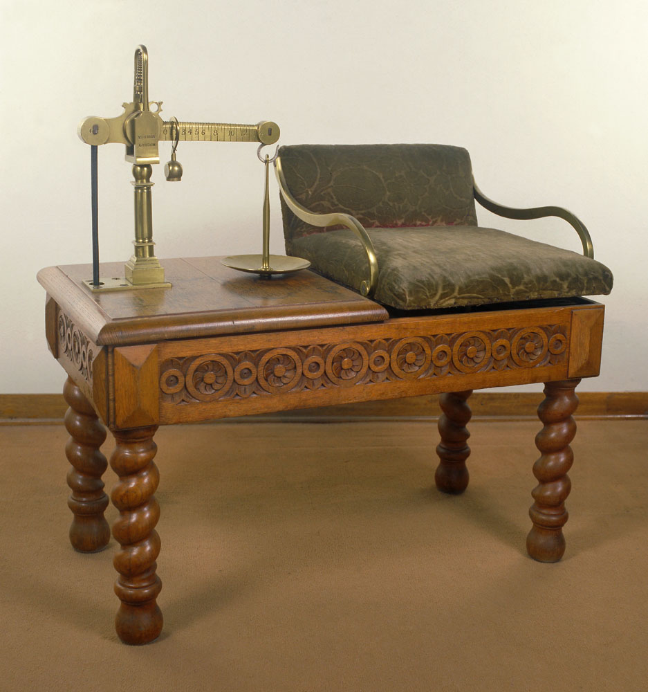 Author Youngs & Son firmDescription